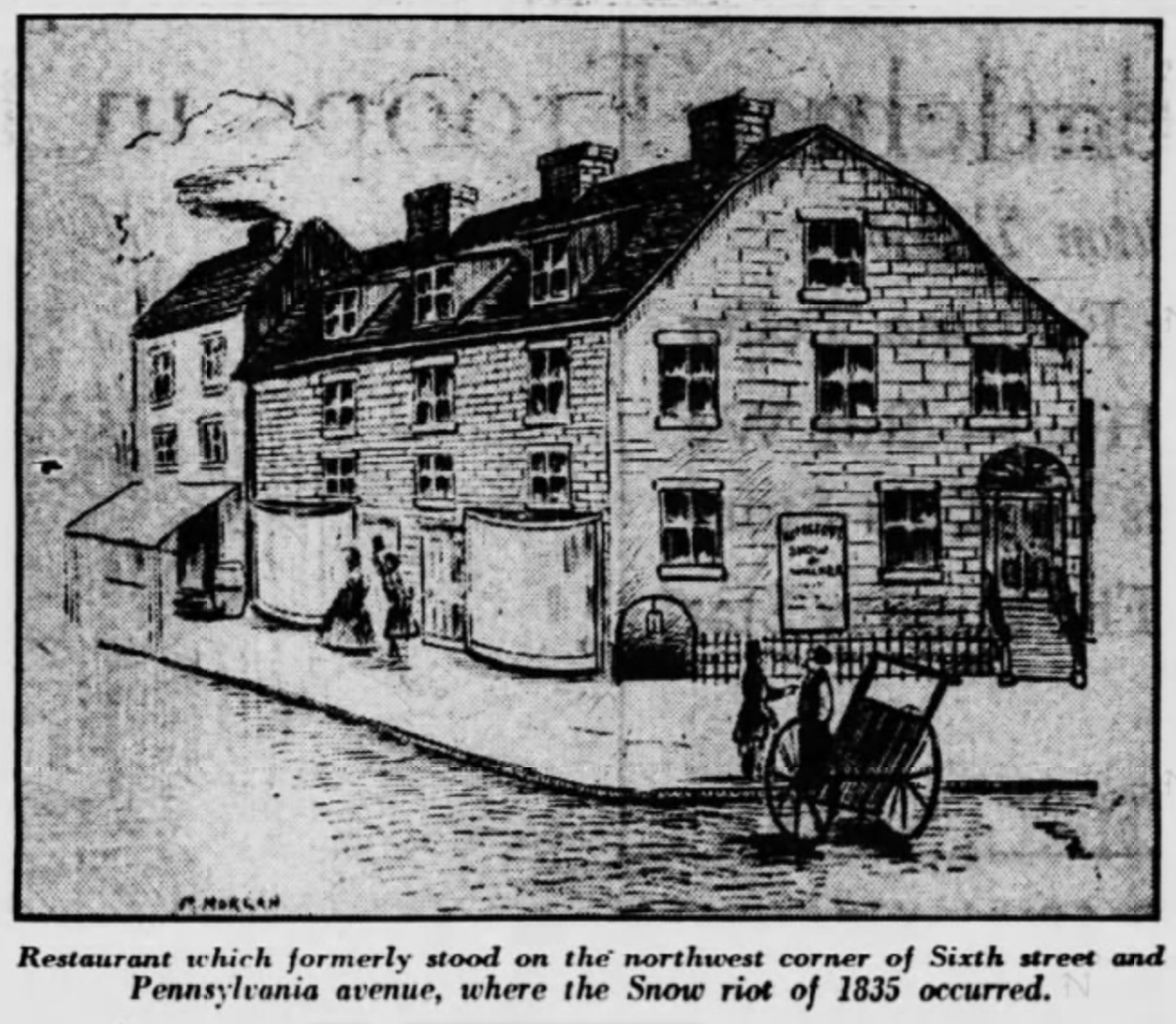 See Snow Riot. In 1835 the restaurant was attacked by a mob. Snow escaped to Canada.